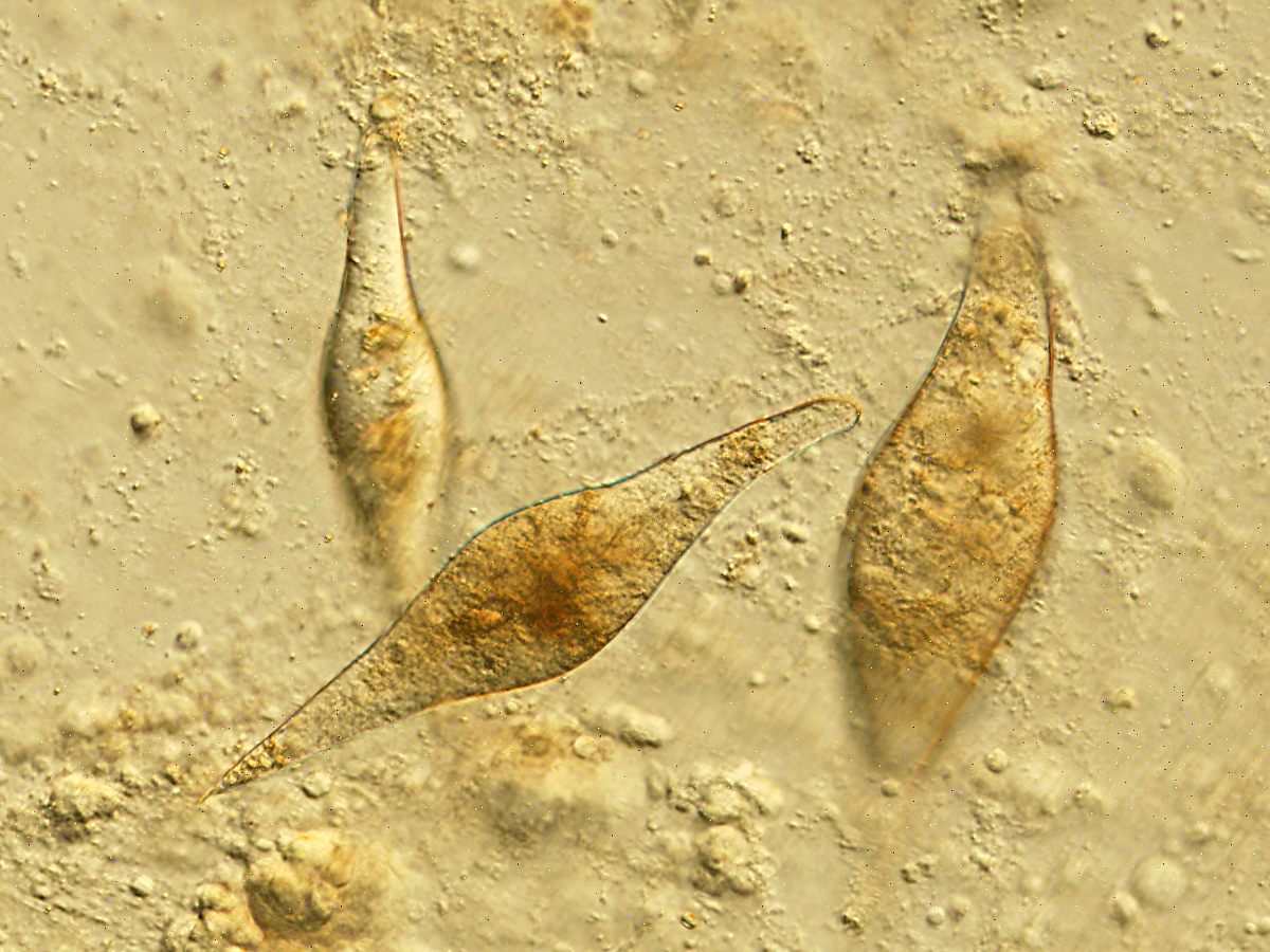 Eggs of neurotropic avian schistosome Trichobilharzia regenti in a nasal tissue of an experimentally infected duck (a native sample).